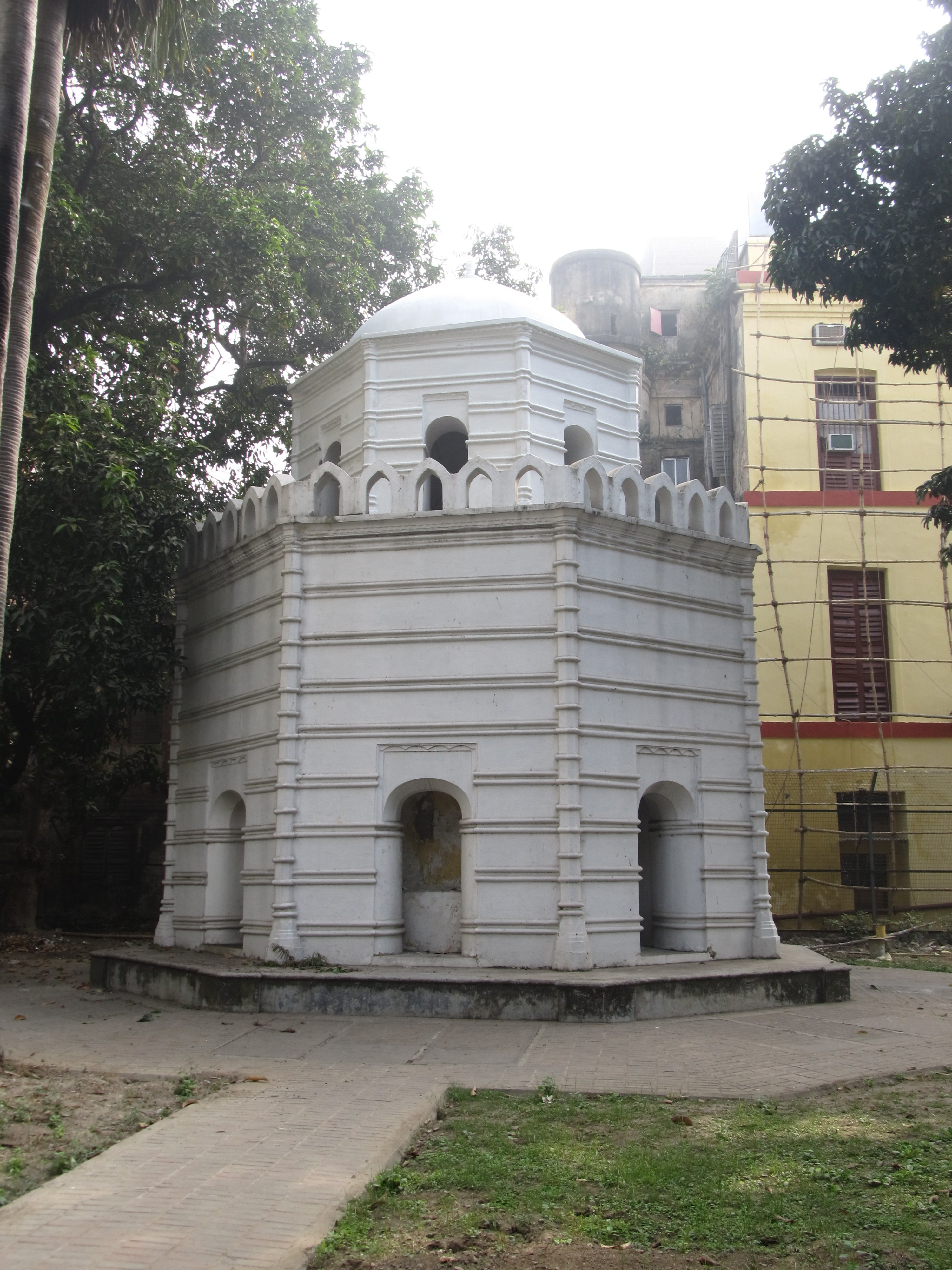 The St John's Church, Kolkata, India.